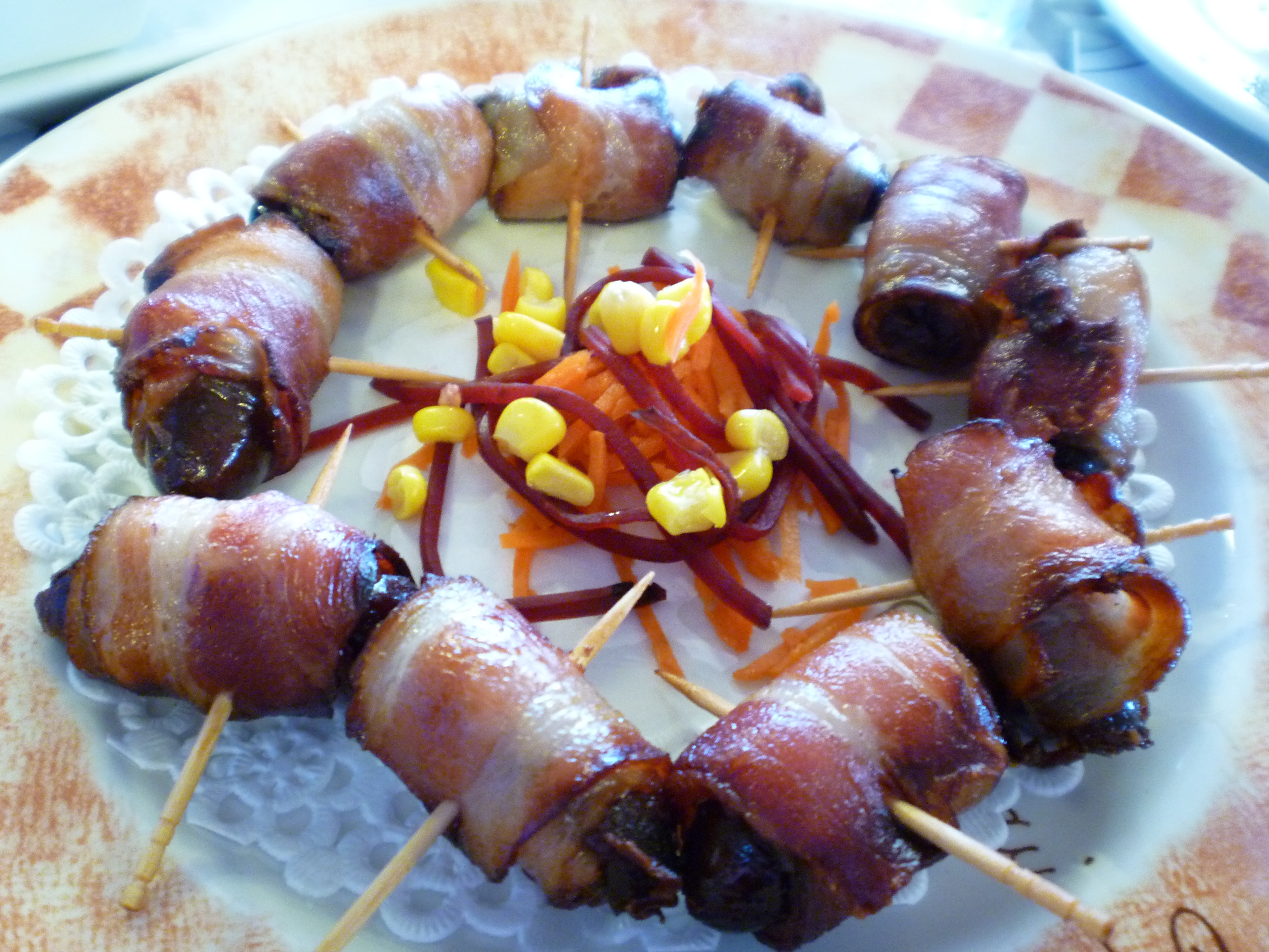 "Devils on horseback", dates wrapped in bacon.